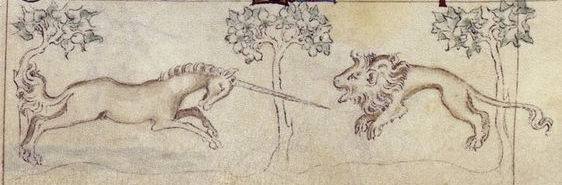 bas de page from the Queen Mary Psalter